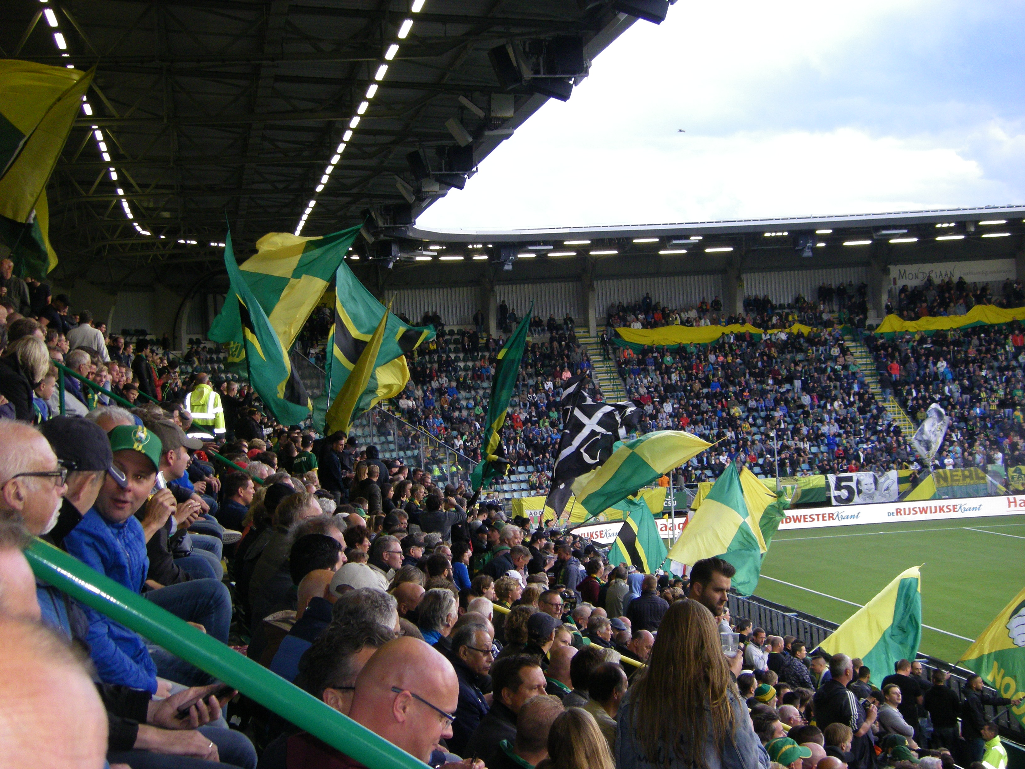 Stand of ADO Den Haag in a league match versus Fortuna Sittard (season 2018-19)